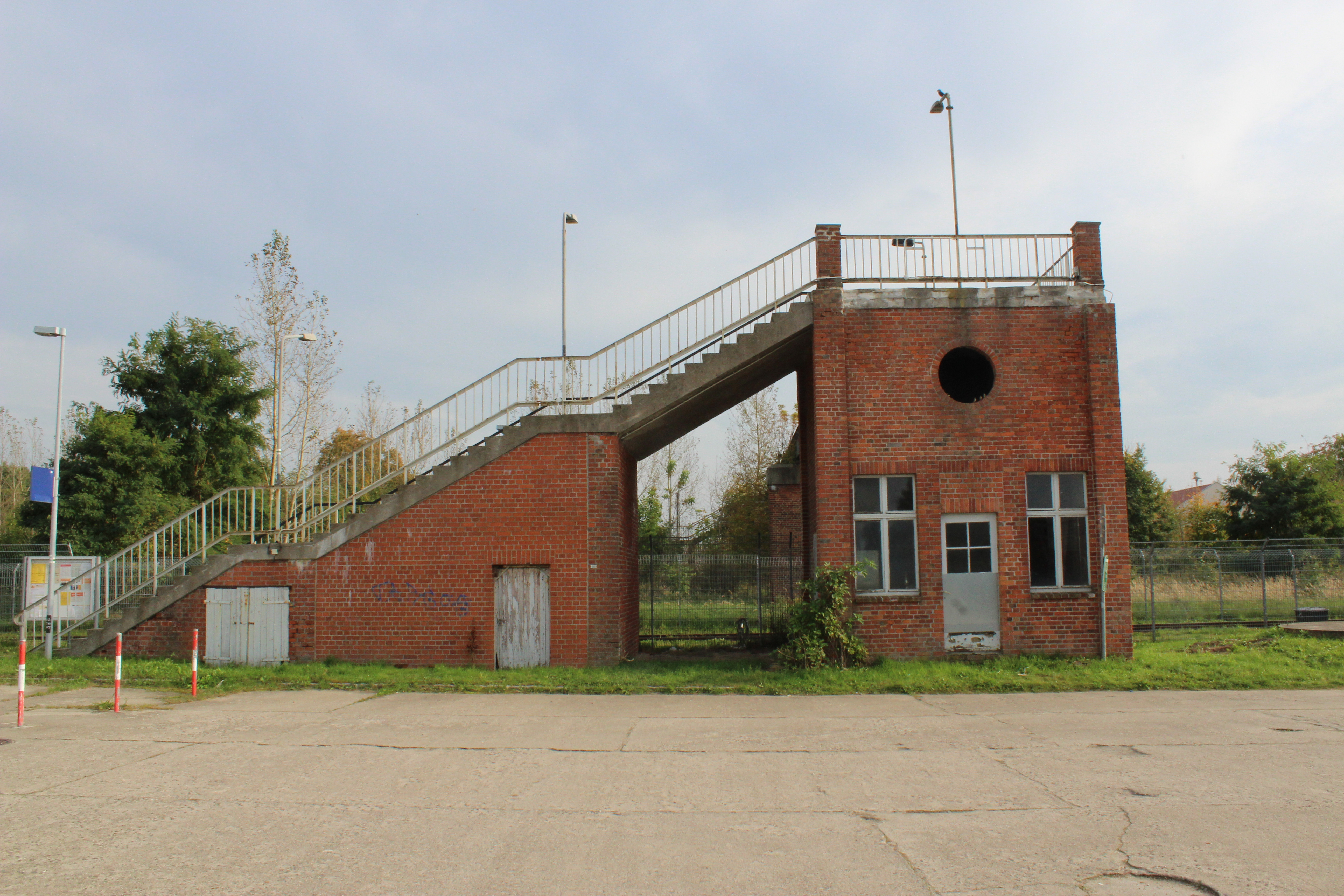 train station Küstrin-Kietz, bridge